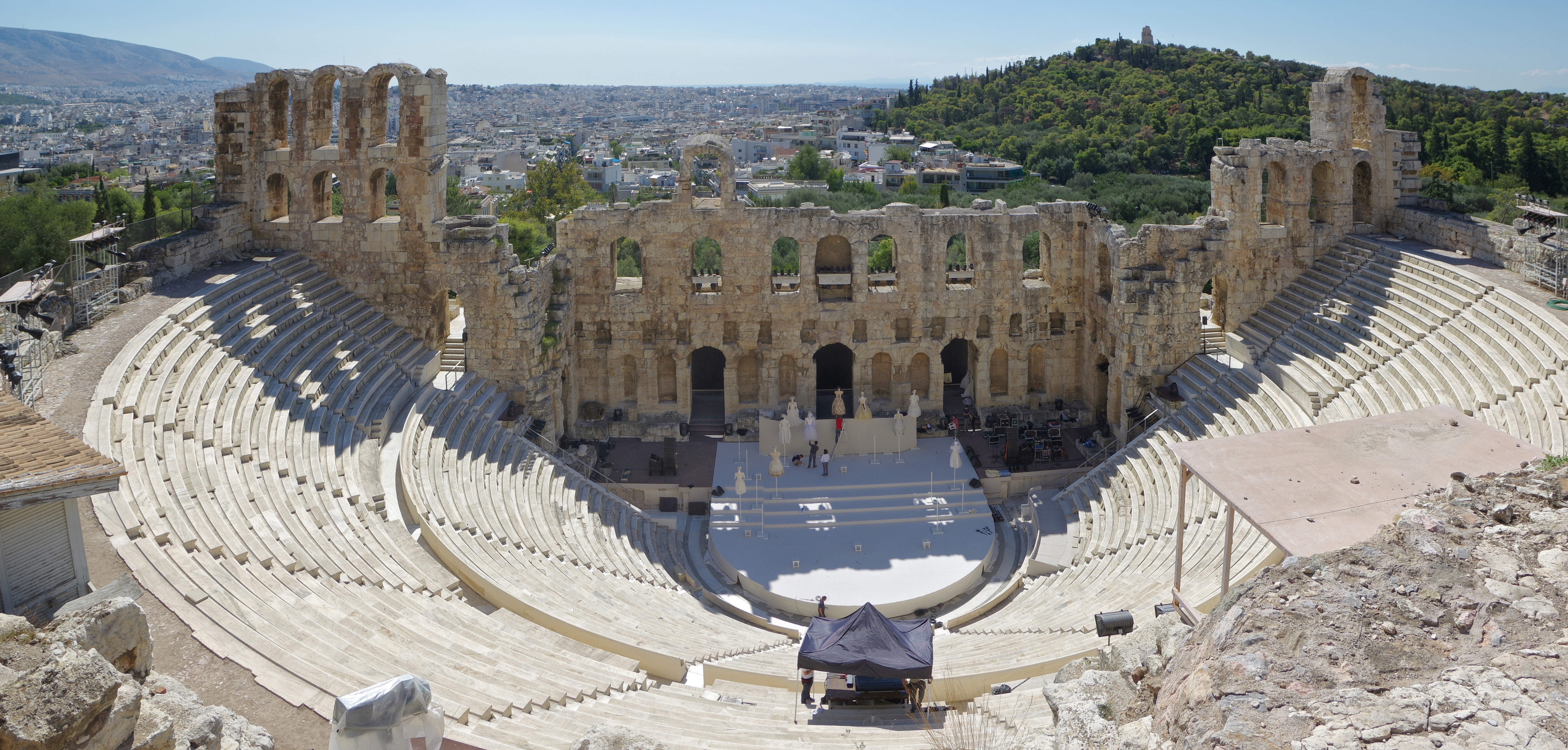 Greece, Athen, Odeon of Herodes Atticus